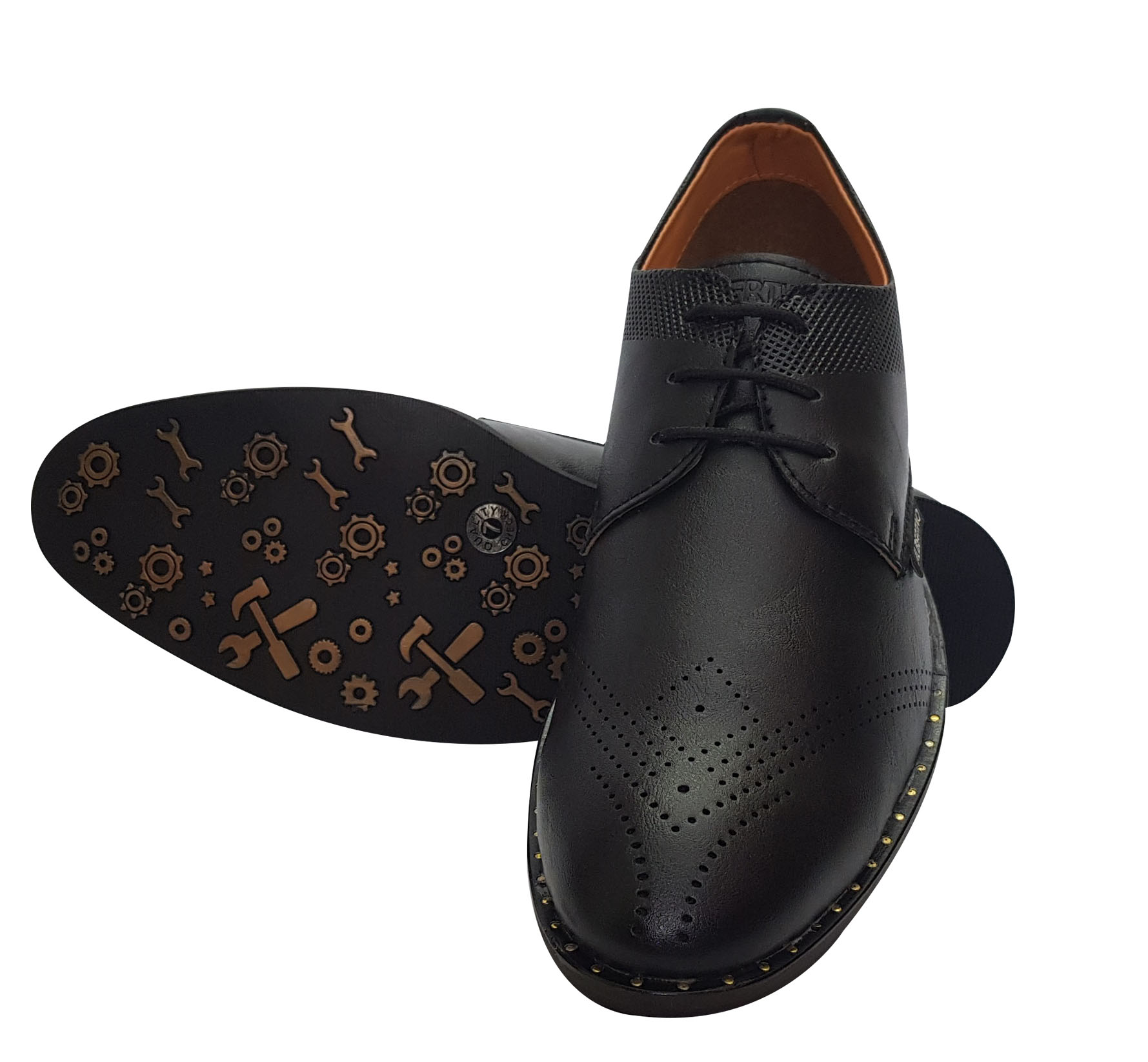 Albertino shoes